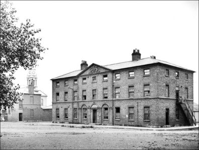 Old photo of Duddeston Barracks